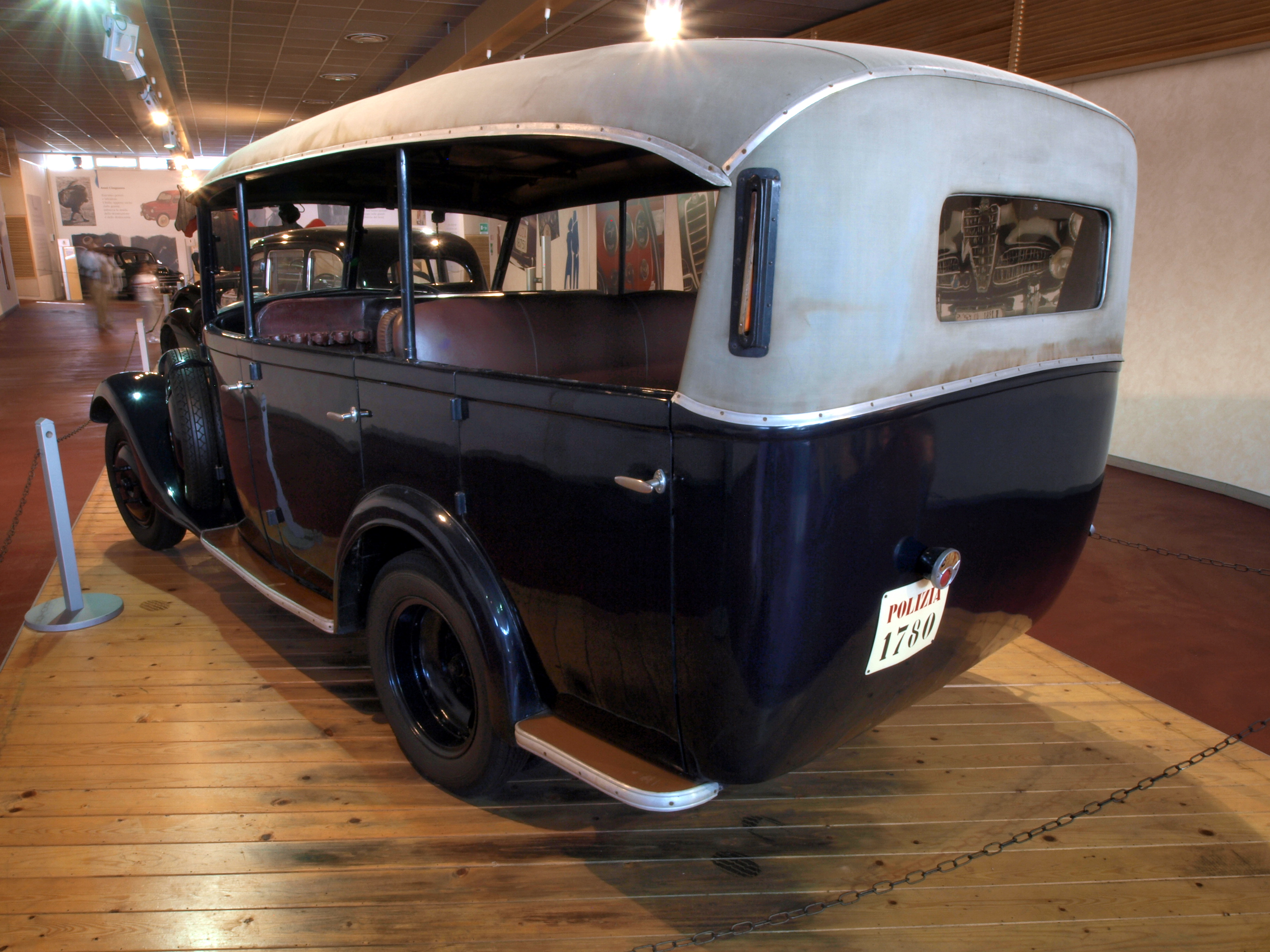 Photographed at Rome, Italy.